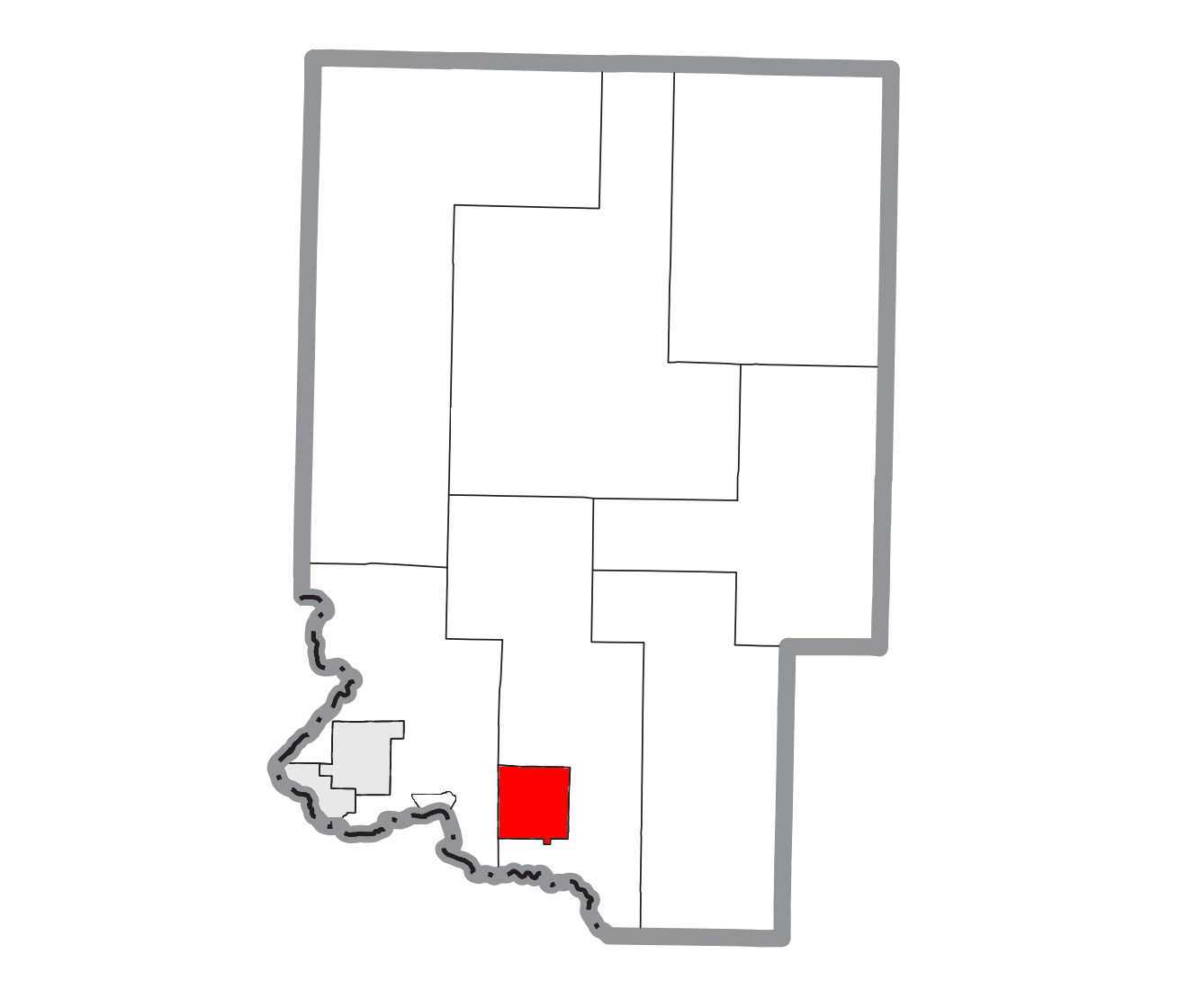 Norway, MI